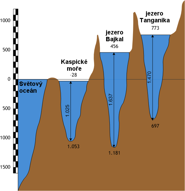 Scheme of three lakes of Earth – Caspian sea, Baikal and Tanganyika.